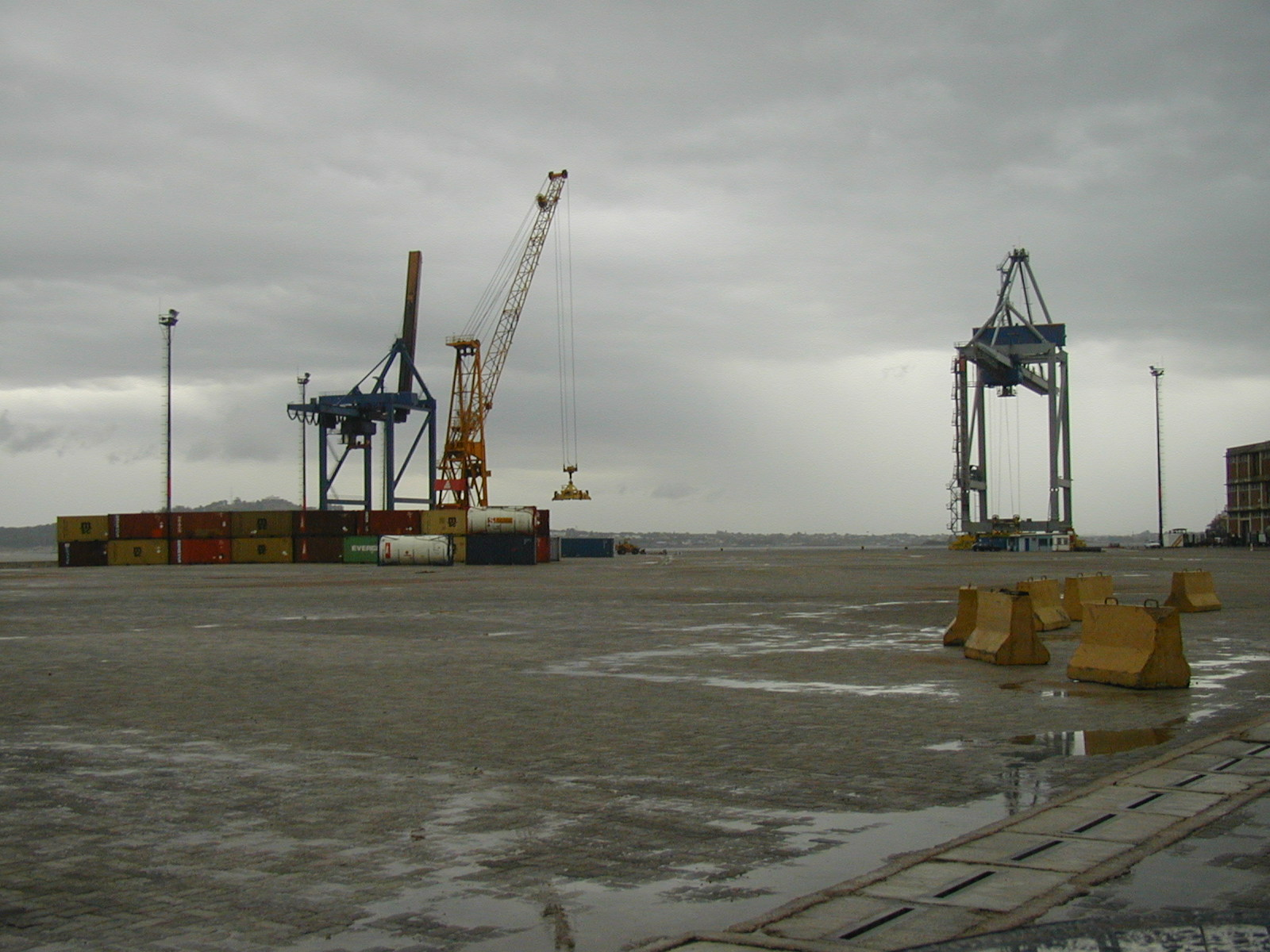 Containers Terminal at Montevideo harbour